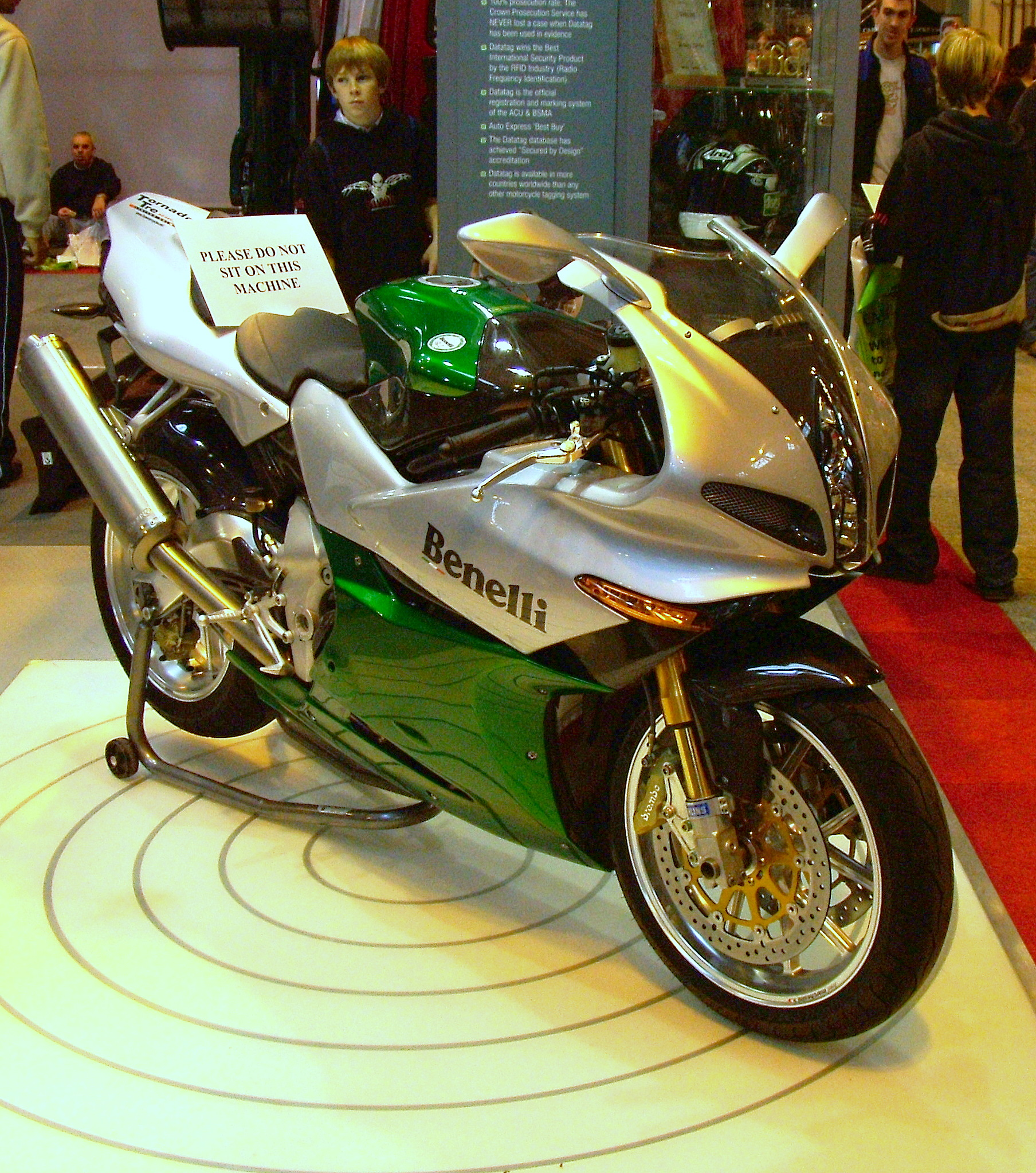 Benelli Tornado at 2006 NEC Motorcycle and Scooter Show